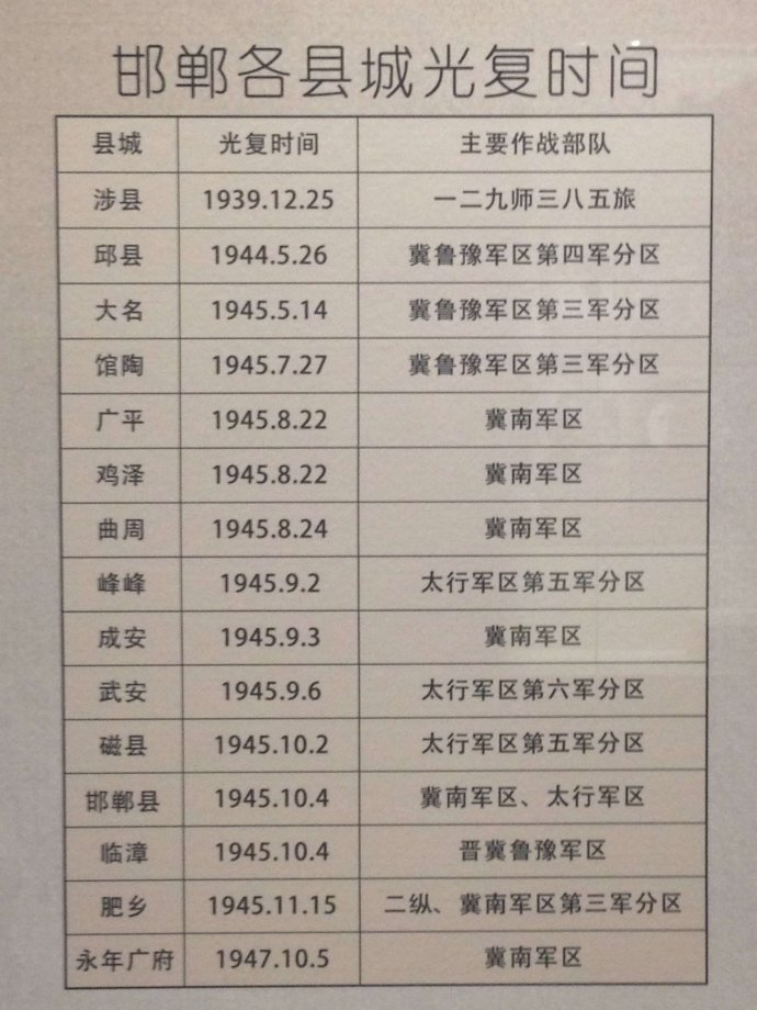 Handan in the War of resistance against Japan .